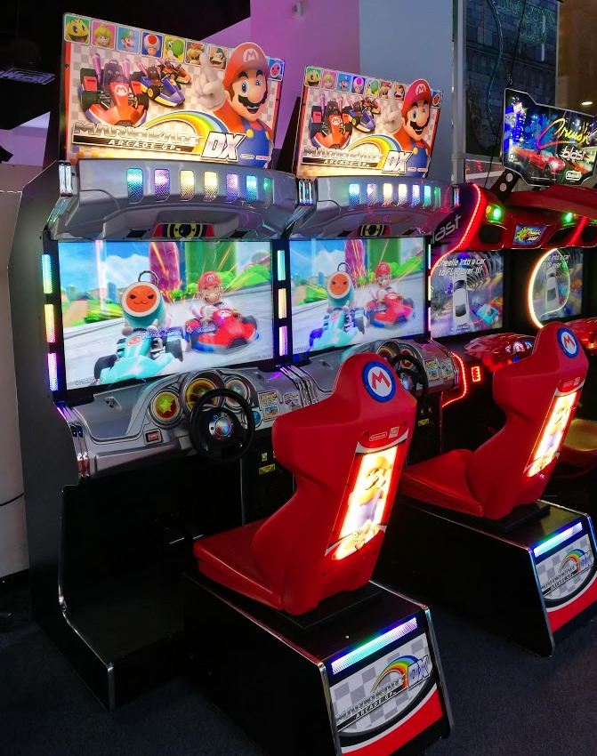 Mario Kart Arcade GP at Fremont Arcade in Las Vegas, Nevada.